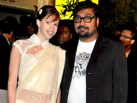 A man dressed in black suit and a women in sari.